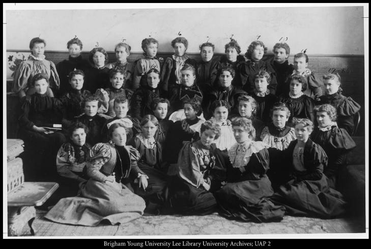 This was a class of the Domestic Science Department started in 1896 with laboratory periods under the direction of Susa Young Gates and Leah Dunford (Widtsoe). A Ladies Work Department had been started in 1881 during the Maeser administration by Zina Young Williams Card. In this photograph Zina Young Williams Card and Susa Young Gates are the fourth and fifth figures in the third row.